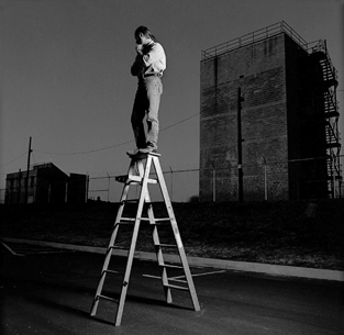 Harold J. Ross, American photographer, standing on a ladder and contemplating a scene to photograph.